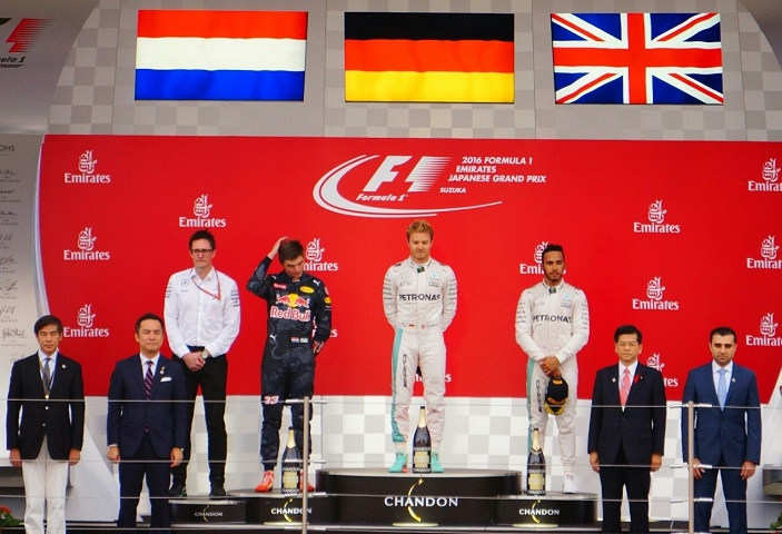 Formula One 2016 Rd.17 Japanese GP: Podium